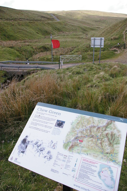 Chew Green, Roman Fort sign, Upper Coquet Tourist sign, near small bridge across the upper Coquet; referring to site of Roman fort nearby NGRef: NT7808 OSMap: LR80 Type: Roman Fort, 2 Fortlets, 2 Marching Camps.